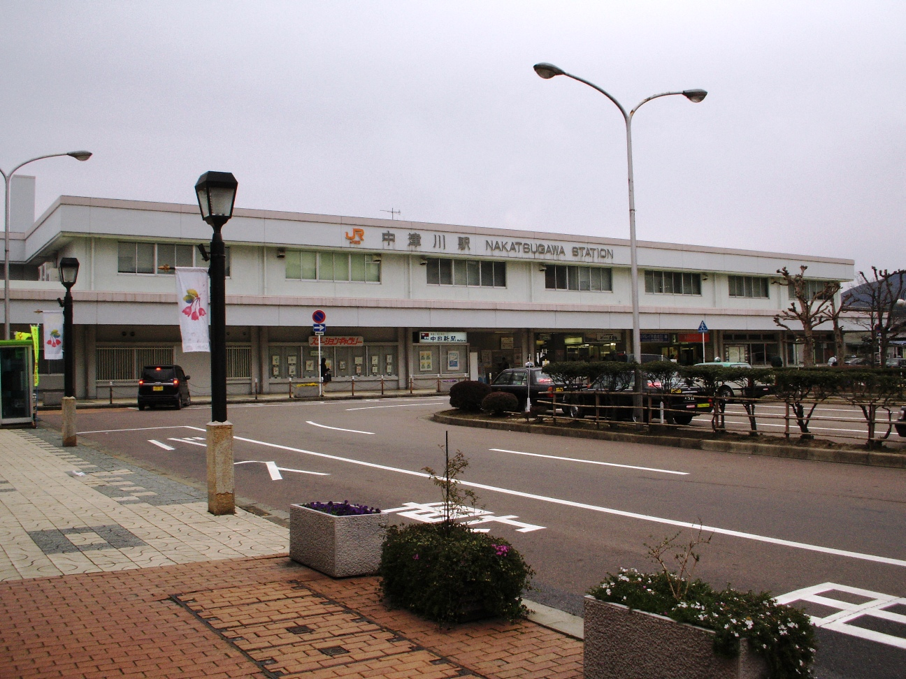 Nakatsugawa Station